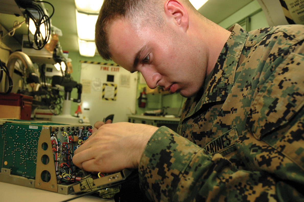 Lance Cpl. Josh Yates, Marine Aviation Logistics Squadron 13 micro miniature electronics technician, splices wire together to repair a generator indicator light Feb. 2 at the MALS-13 on MCAS Yuma.